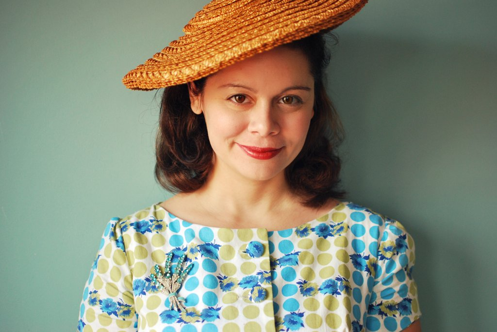 Mena Trott in a dress she made as part of the weekly challenges from